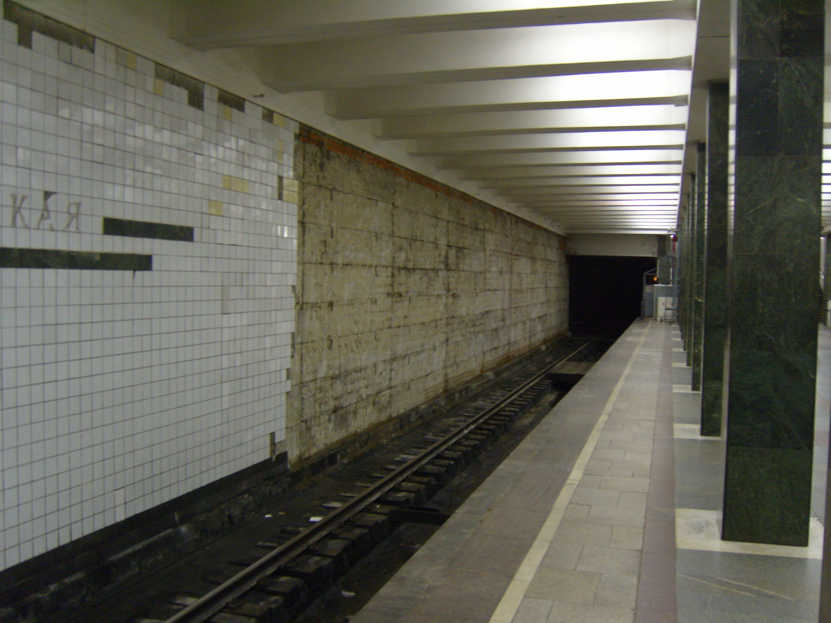 Substitution of tile on the station of Moscow Metro "Preobrazhenskaya Ploshchad", 25th of November, 2009.